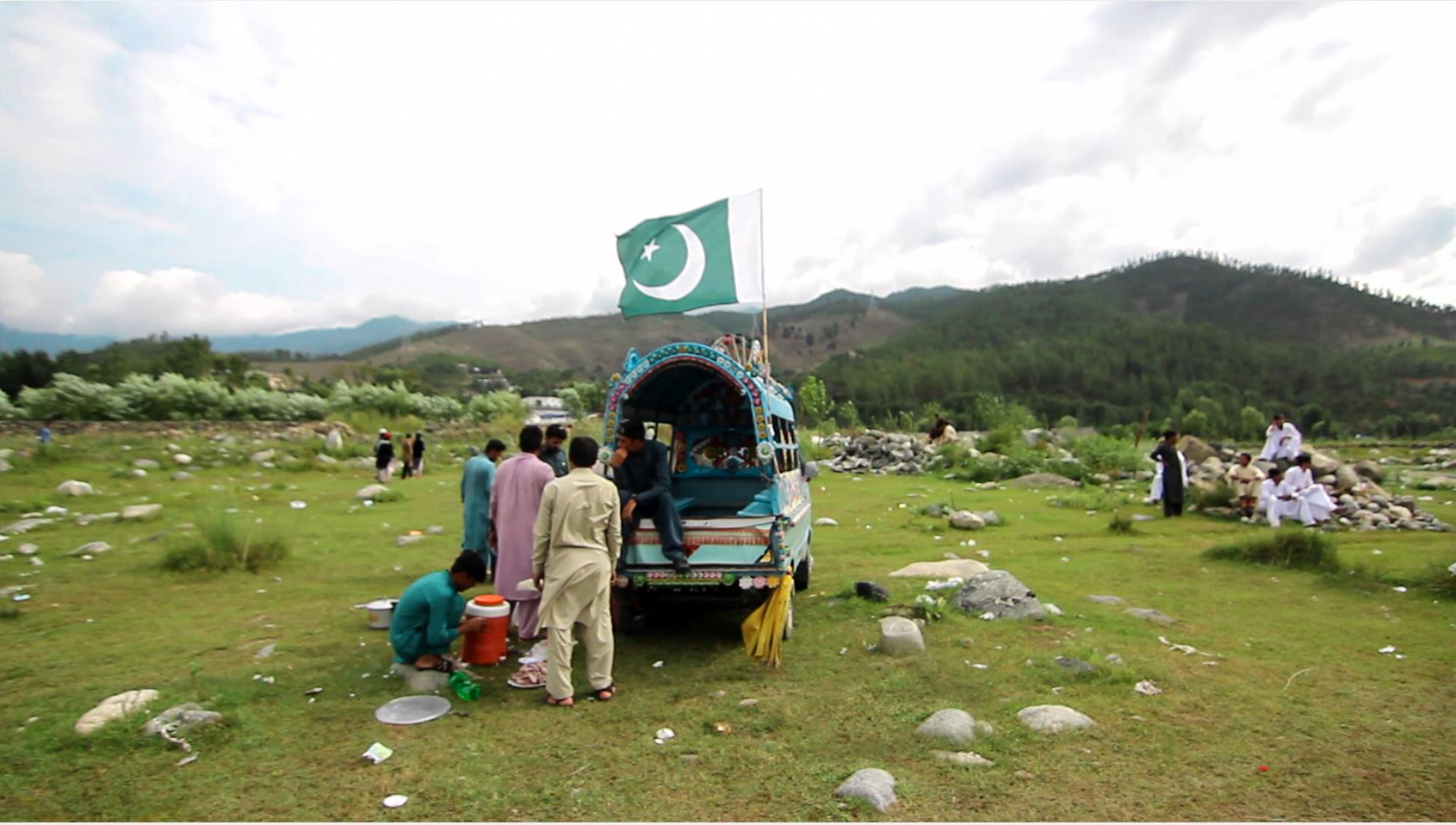 Rabat Dir Lower Is Also Is One Of The Of The Best Spot For Tourists On The Way To Kumrat Valley